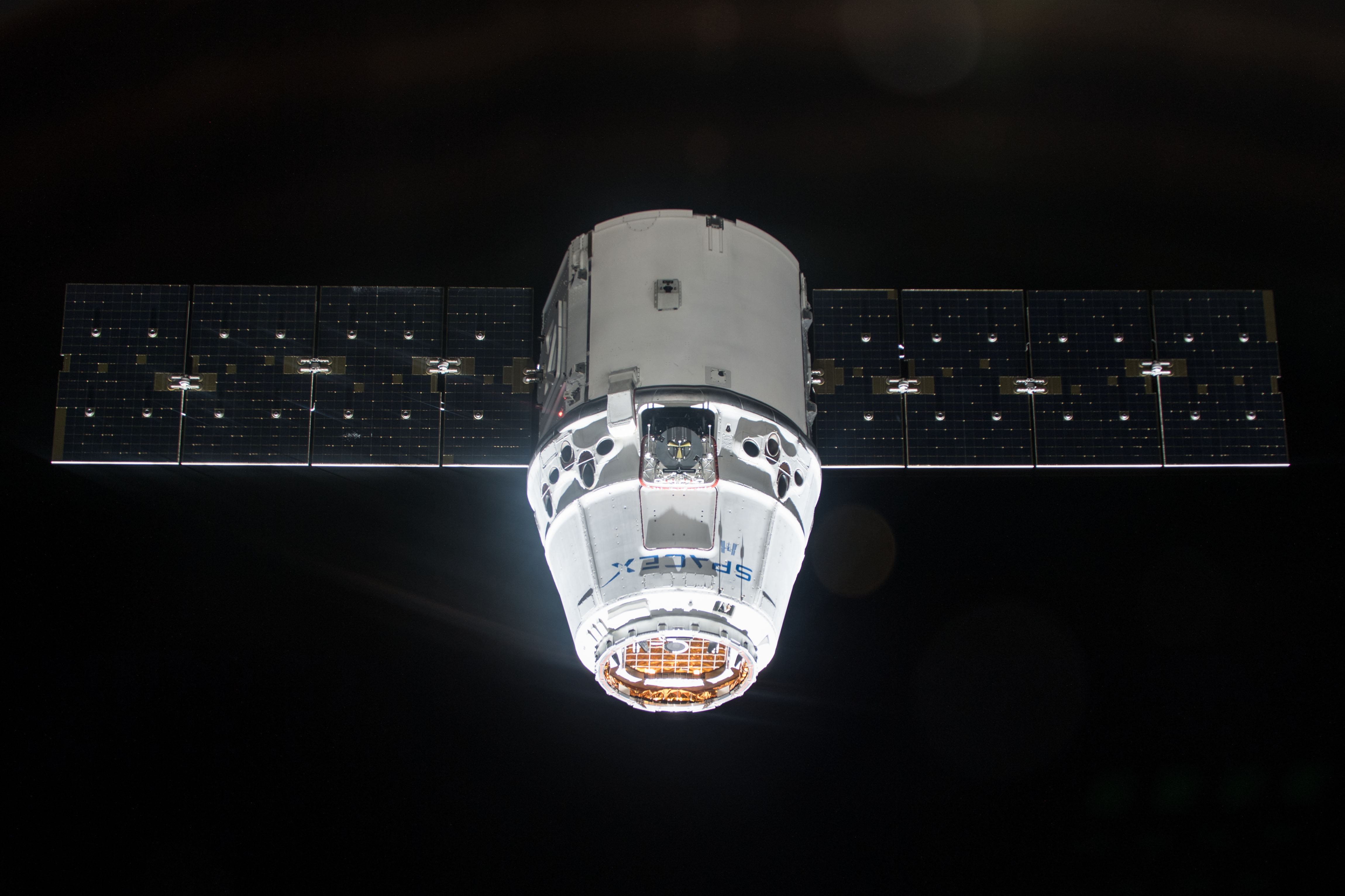 The SpaceX Dragon cargo craft is pictured approaching the International Space Station during an orbital night period.